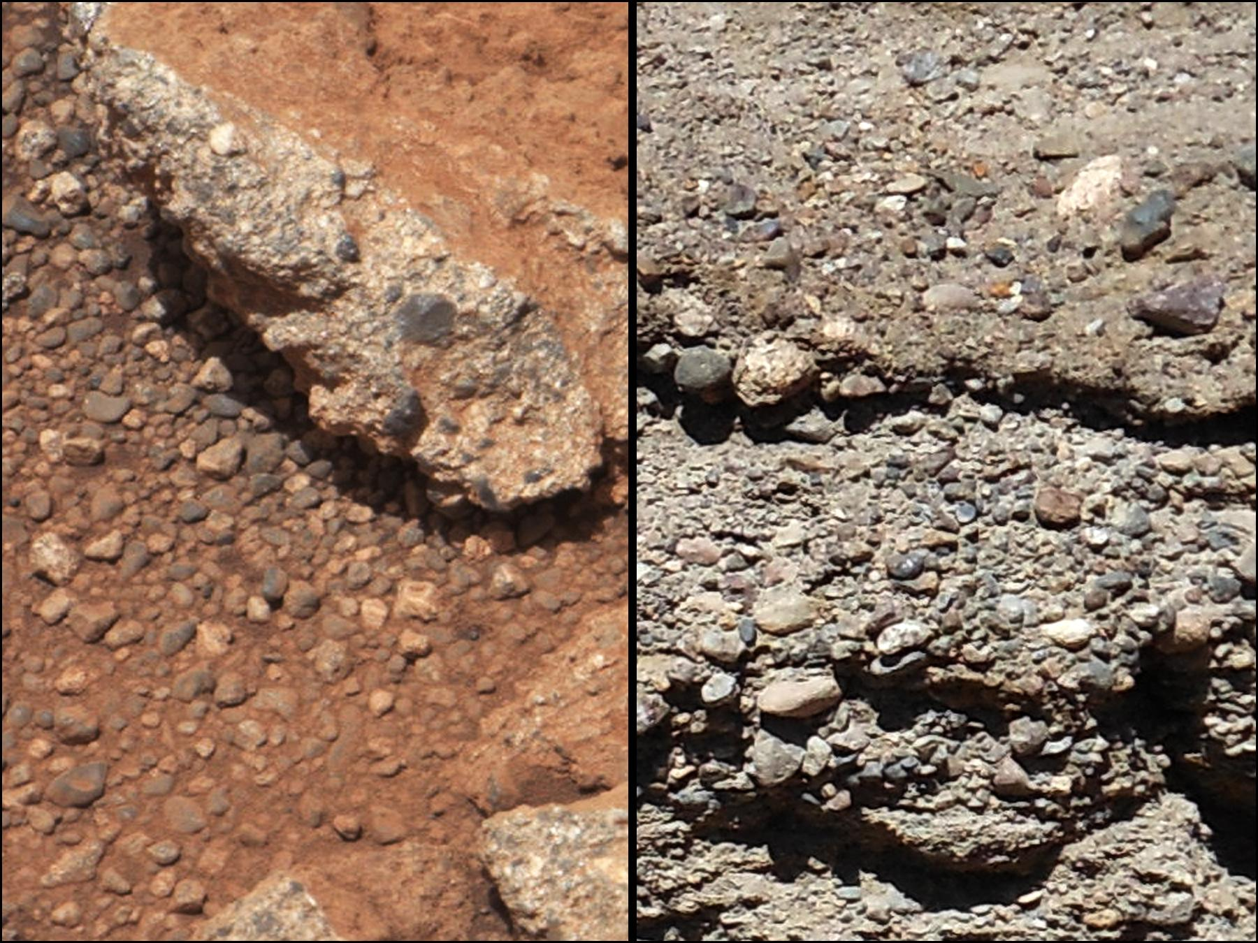 09.26.2012 Rock Outcrops on Mars and Earth This set of images compares the Link outcrop of rocks on Mars (left) with similar rocks seen on Earth (right). The image of Link, obtained by NASA's Curiosity rover, shows rounded gravel fragments, or clasts, up to a couple inches (few centimeters), within the rock outcrop. Erosion of the outcrop results in gravel clasts that fall onto the ground, creating the gravel pile at left. The outcrop characteristics are consistent with a sedimentary conglomerate, or a rock that was formed by the deposition of water and is composed of many smaller rounded rocks cemented together. A typical Earth example of sedimentary conglomerate formed of gravel fragments in a stream is shown on the right. An annotated version of the image highlights a piece of gravel that is about 0.4 inches (1 centimeter) across. It was selected as an example of coarse size and rounded shape. Rounded grains (of any size) occur by abrasion in sediment transport, by wind or water, when the grains bounce against each other. Gravel fragments are too large to be transported by wind. At this size, scientists know the rounding occurred in water transport in a stream. The name Link is derived from a significant rock formation in the Northwest Territories of Canada, where there is also a lake with the same name. Scientists enhanced the color in the Mars image to show the scene as it would appear under the lighting conditions we have on Earth, which helps in analyzing the terrain. The Link outcrop was imaged with the 100-millimeter Mast Camera on Sept. 2, 2012, which was the 27th sol, or Martian day of operations. Image Credit: NASA/JPL-Caltech/MSSS and PSI